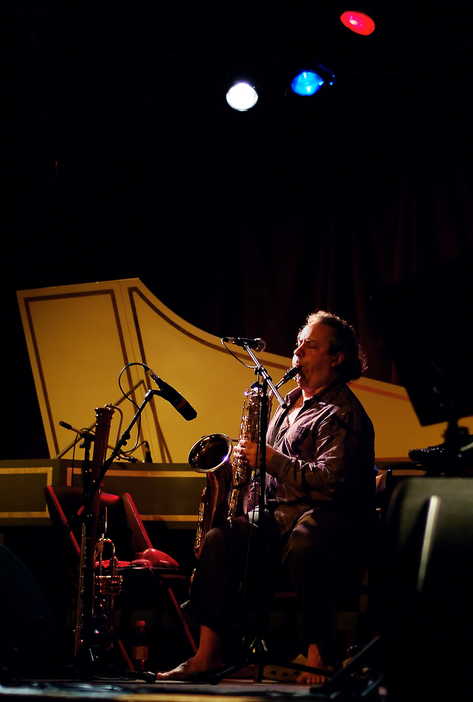 Jean Derome performing with Jandek, Loren Robert Carle and Ray Dillard at the Suoni Per Il Popolo Festival in Montreal, Canada, 2007-06-24.